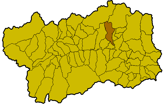 Location of Torgnon in Aosta Valley, Italy.